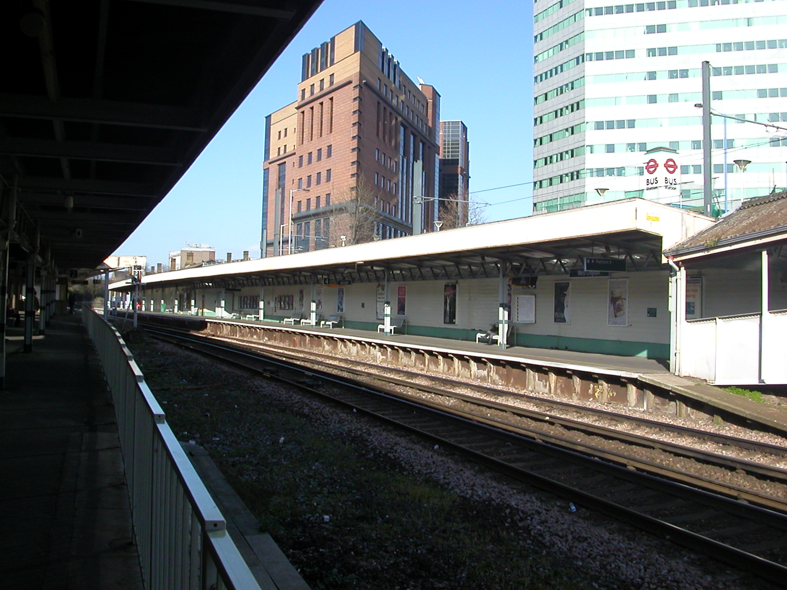 View across the platforms at West Croydon station, from the western end. Photographed on 17th March 2007.